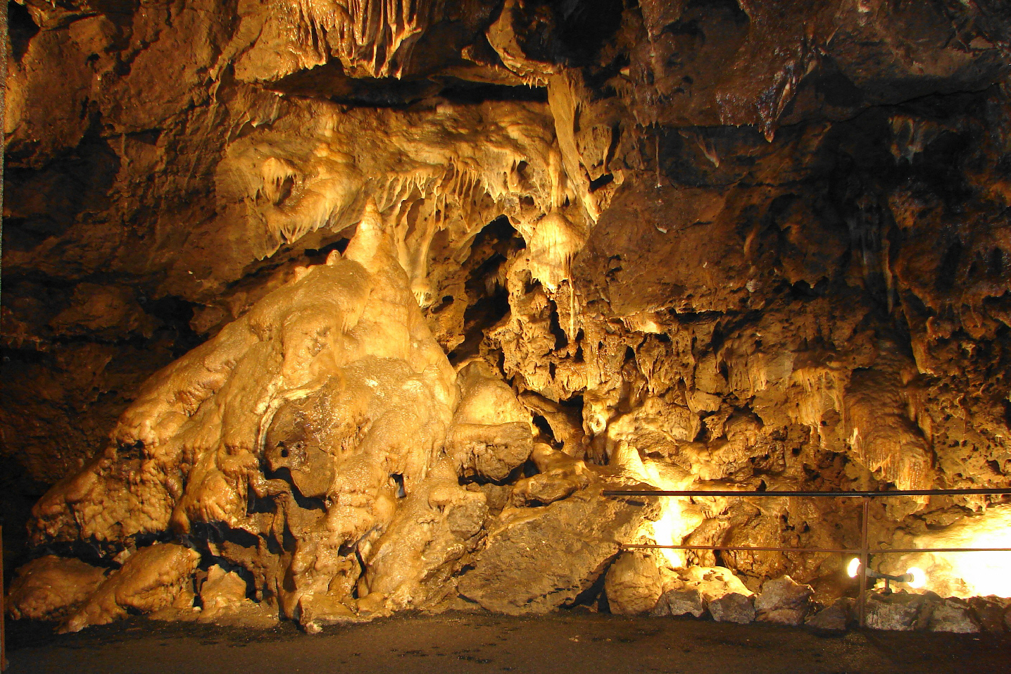 The Pyramid (a living rock) in the Kittelsthal Cave.